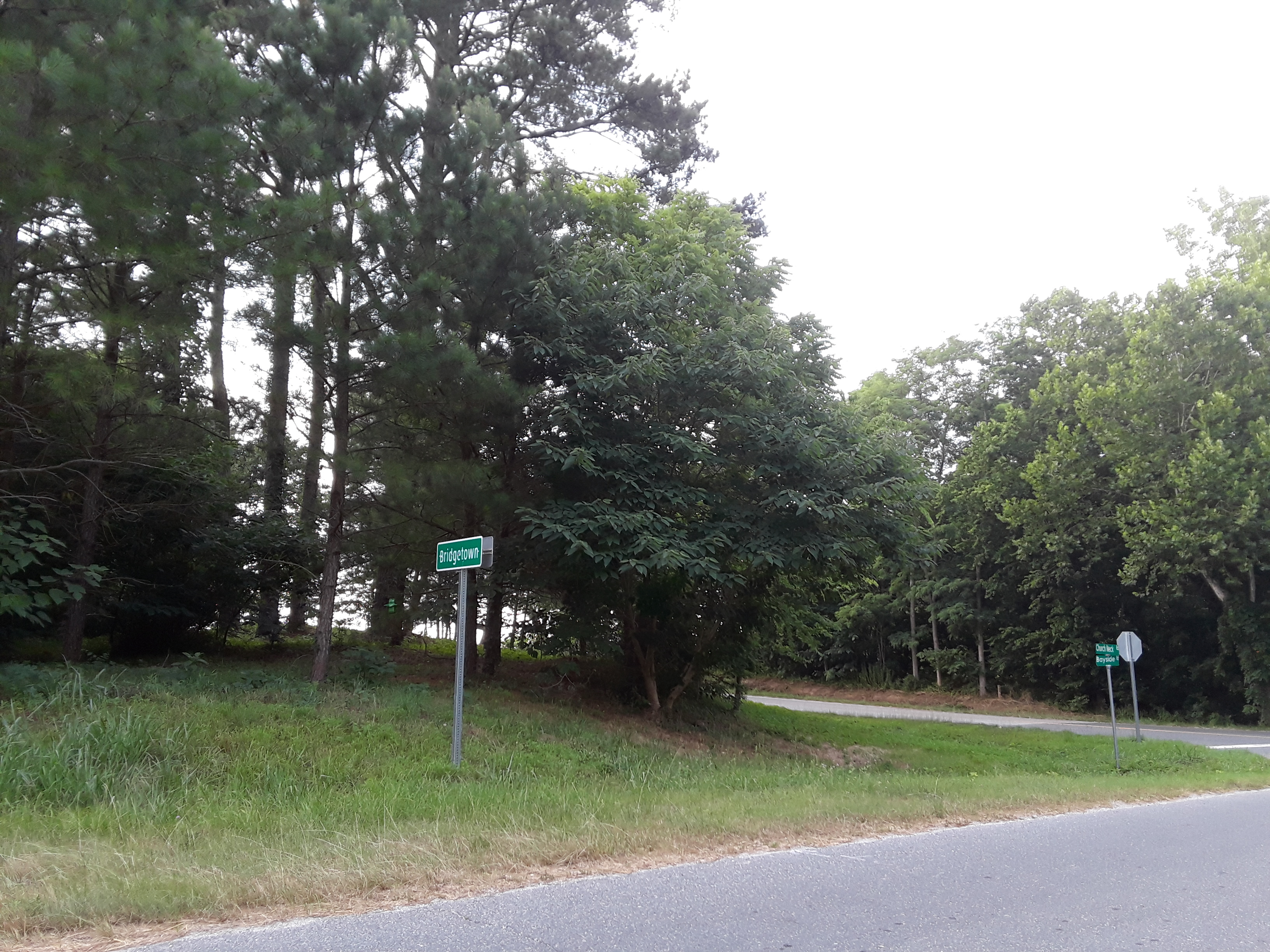 Taken on a visit to the Eastern Shore of Virginia, July 2018